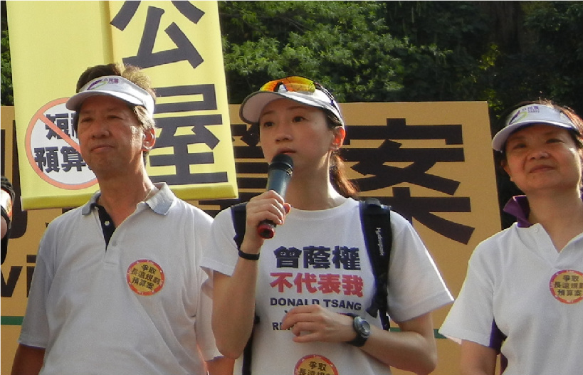 Ronny Tong, Tanya Chan and Endrey Yee